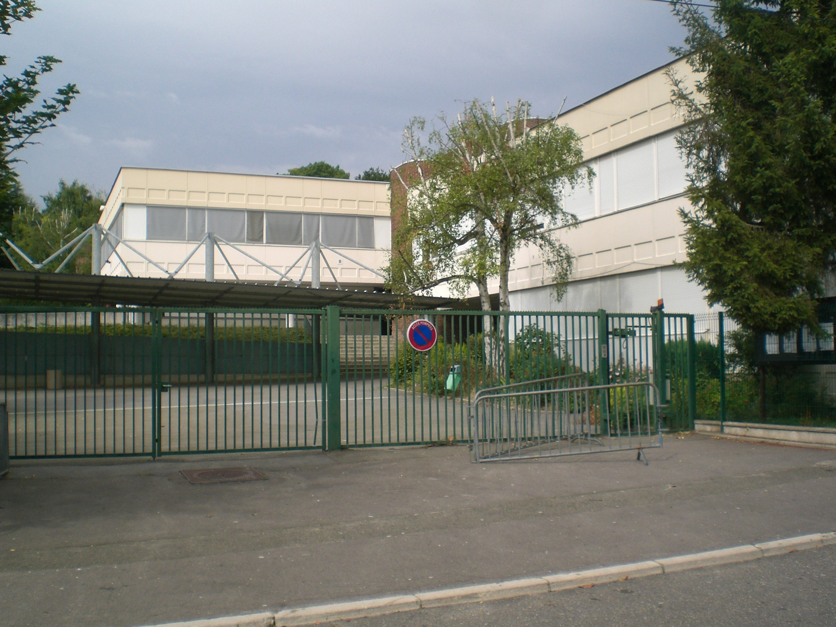 Secondary education scool